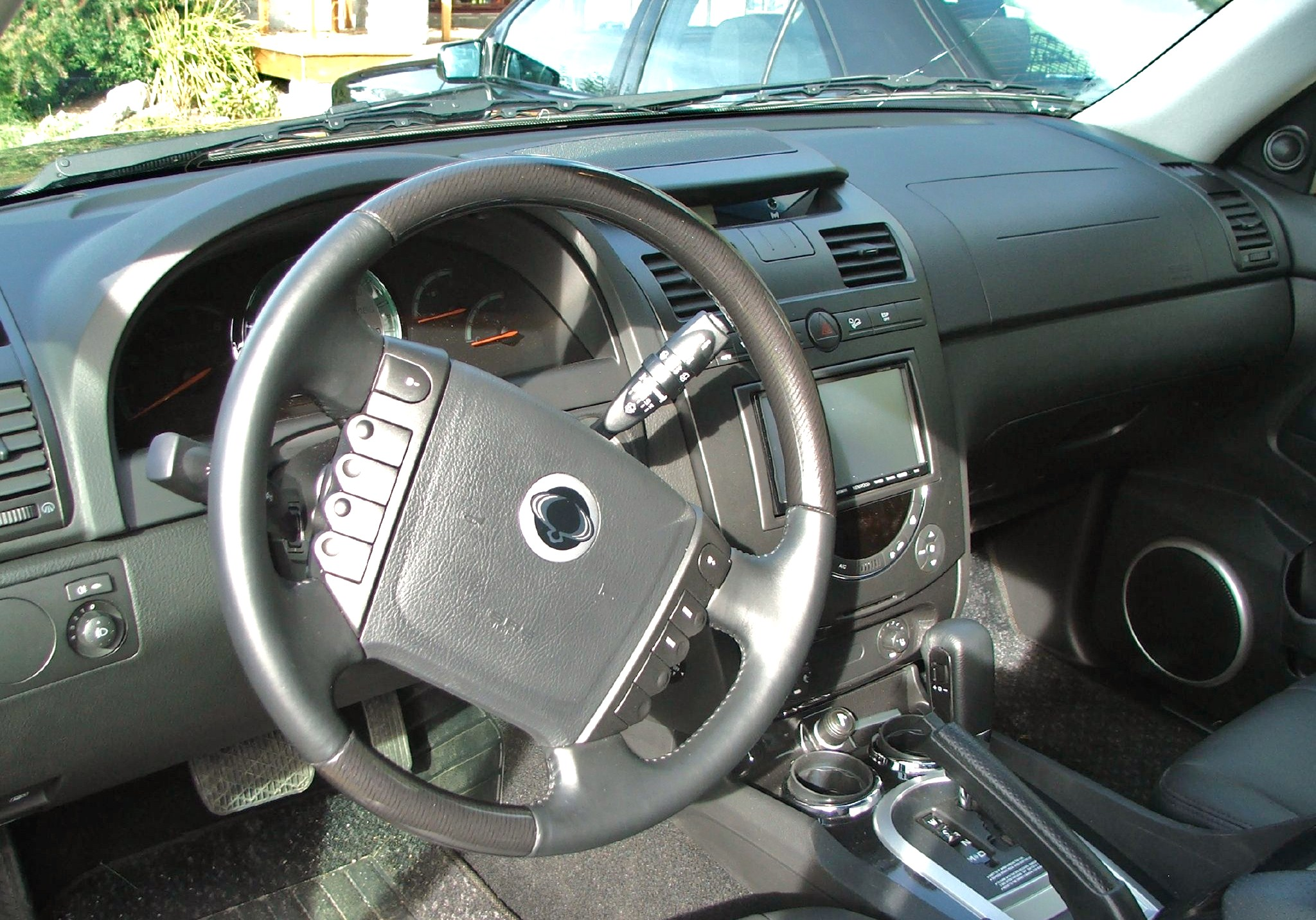 SsangYong Rexton II